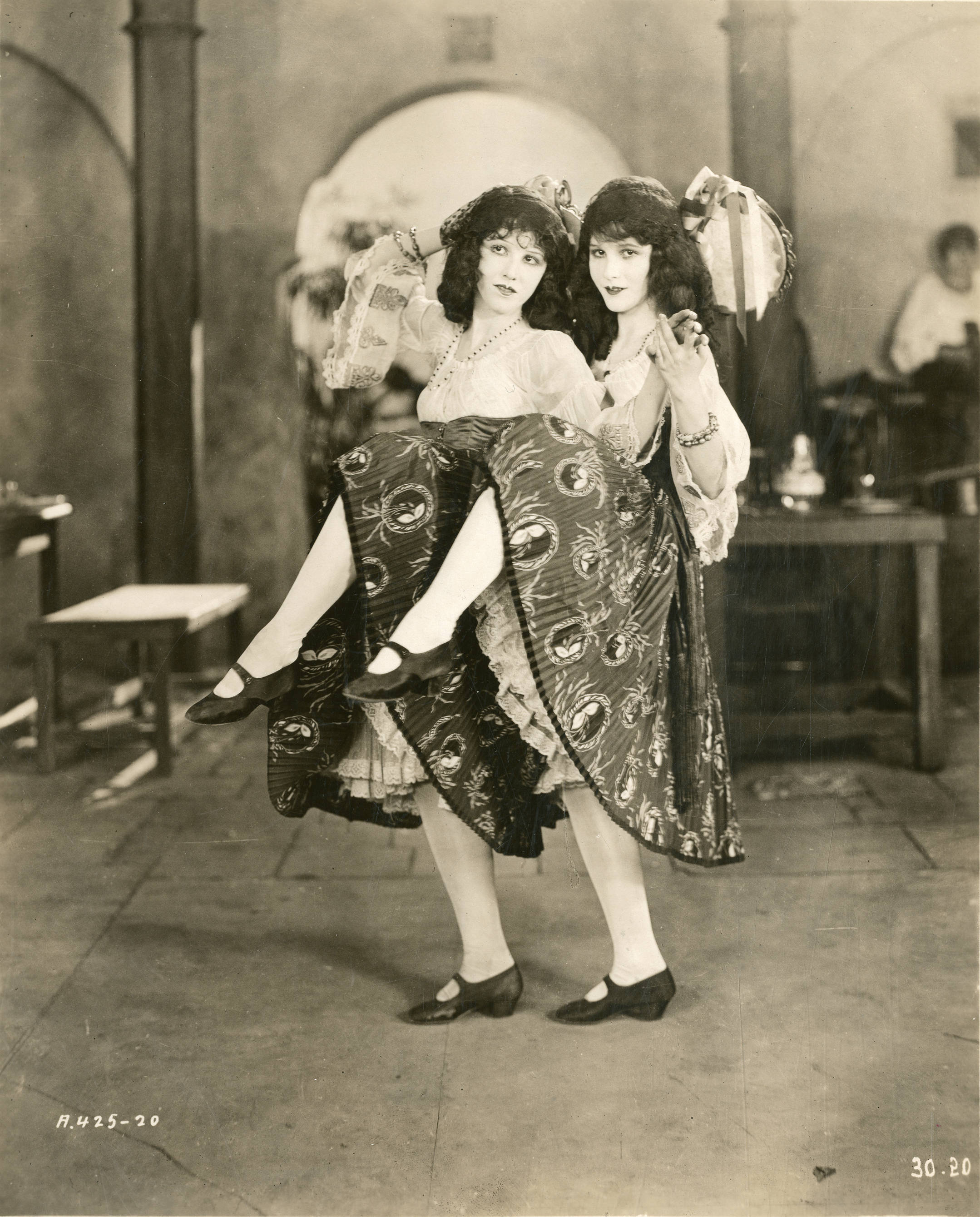 Still from the American film The Beauty Shop (1922). Subjects: motion pictures, entertainers